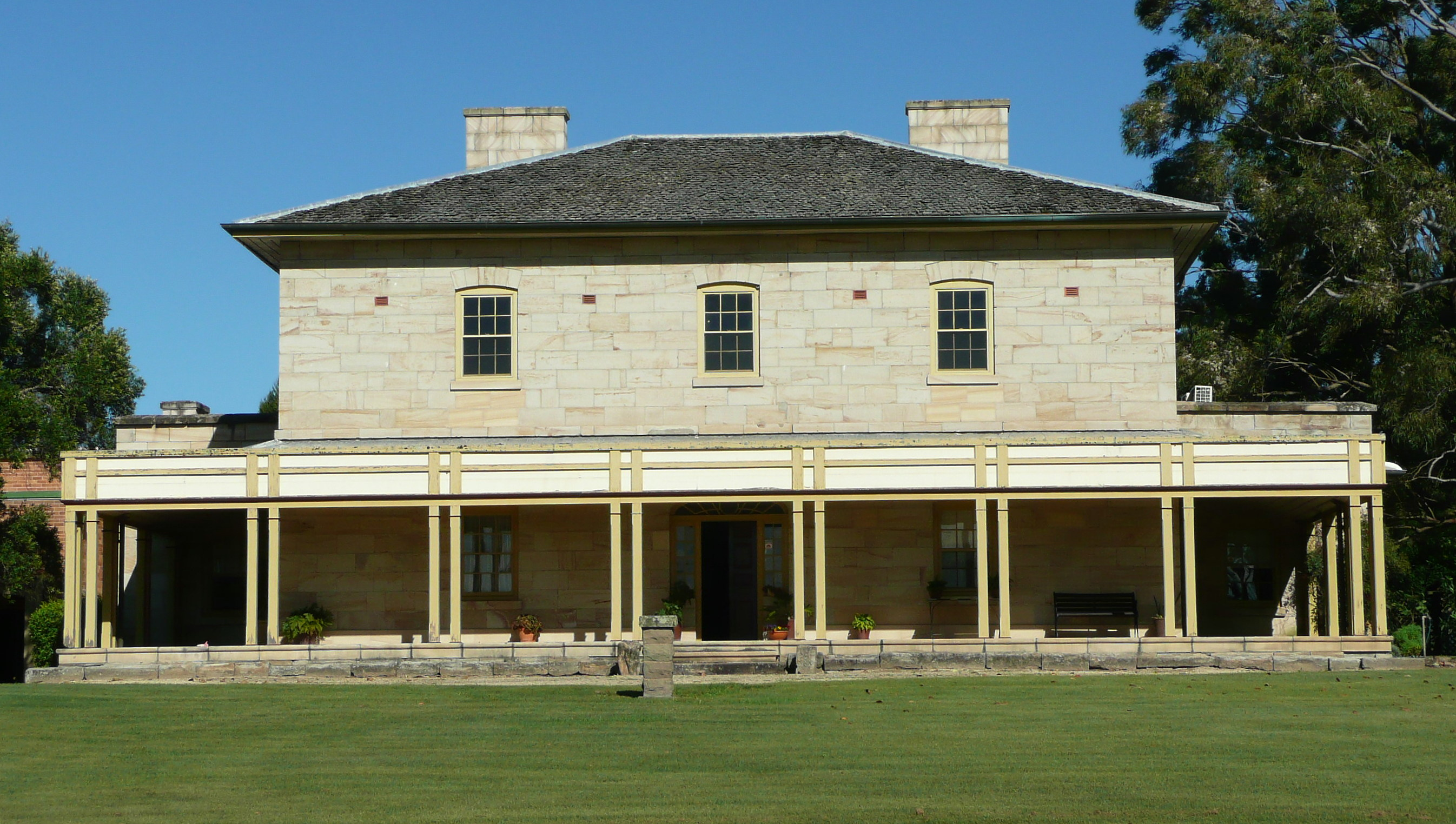 St johns College, Morpeth, NSW, Australia